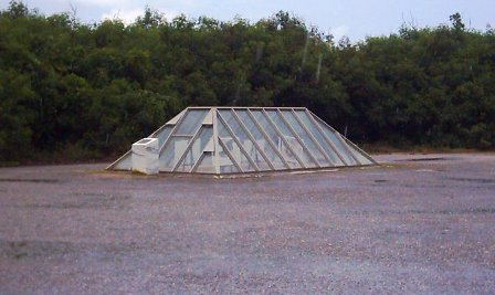 Atomic Bomb Pit No. 1 "Little Boy" Tinian North Field.